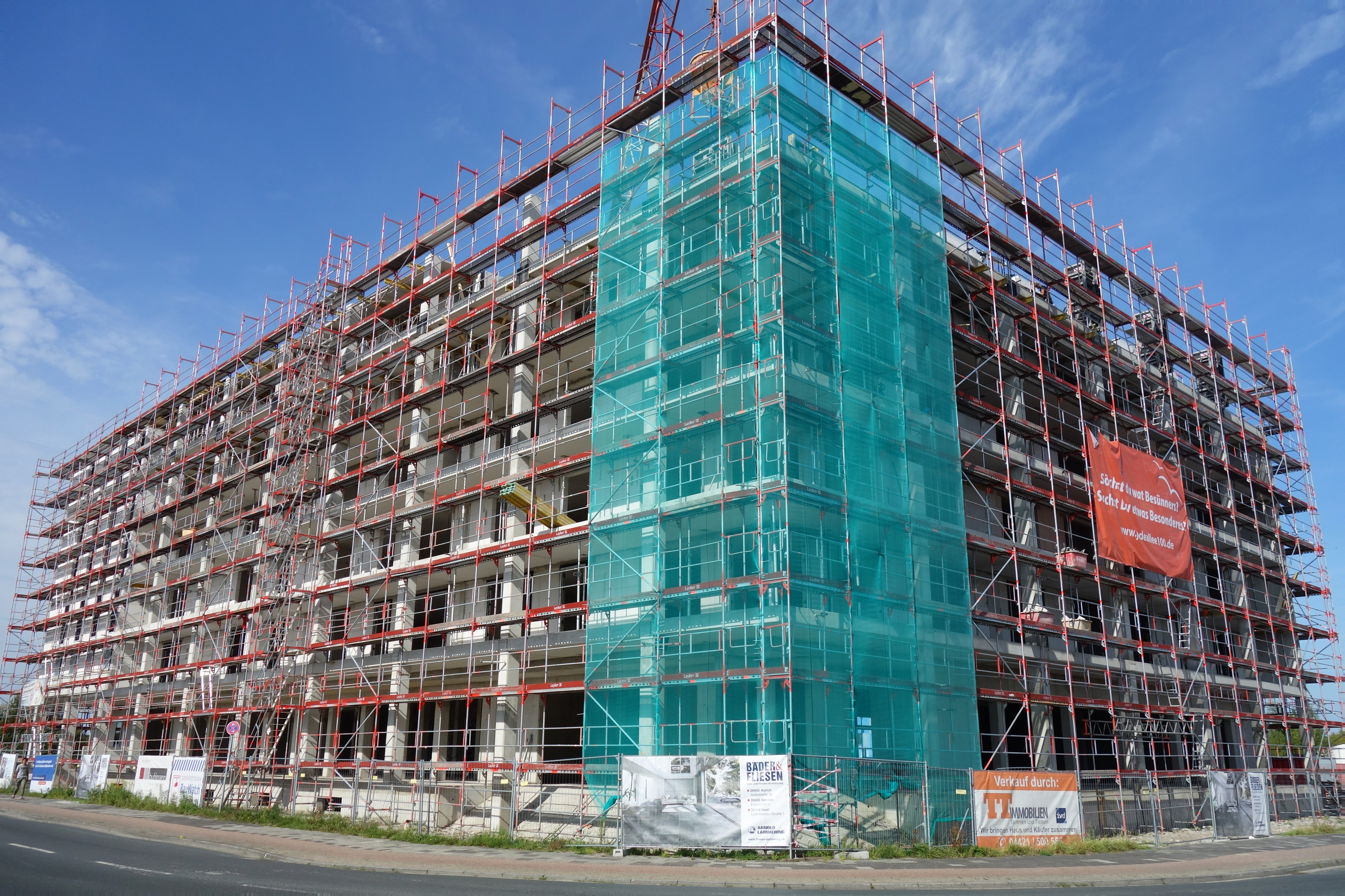 Jadeallee 100 construction site in August 2019